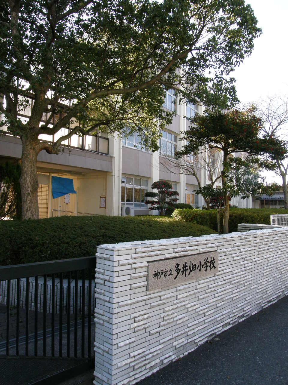 Tainohata Elementary School - A student from this school was murdered by the perpetrator of the Seito Sakakibara murders in 1997.